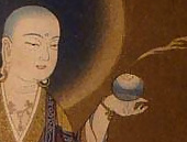 Ksitigarbha, the earth store bodhisattva, with his staff he uses to pound open the gates of Hell, and his cintamani pearl for illuminating all the various realms of hell, to benefit sentient beings trapped there.